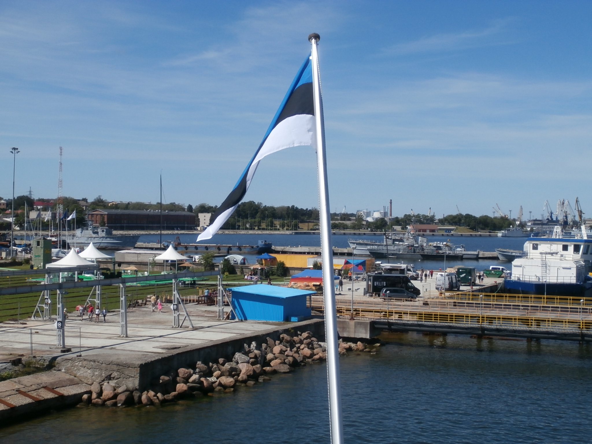 Tarmo flag, Lennusadam, Tallinn 15 July 2017 (Kake, M311 Wambola, Säde, M312 Sulev, P422 Ristna, M415 Olev, M416 Vaindlo at quay 44, feed barge at quay 40 in Port Noblessner)